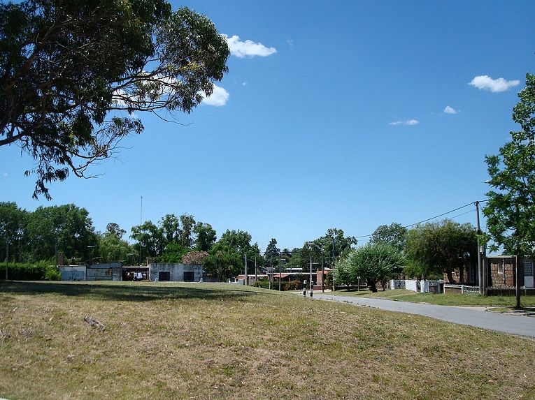 The central square of Parque Guaraní.